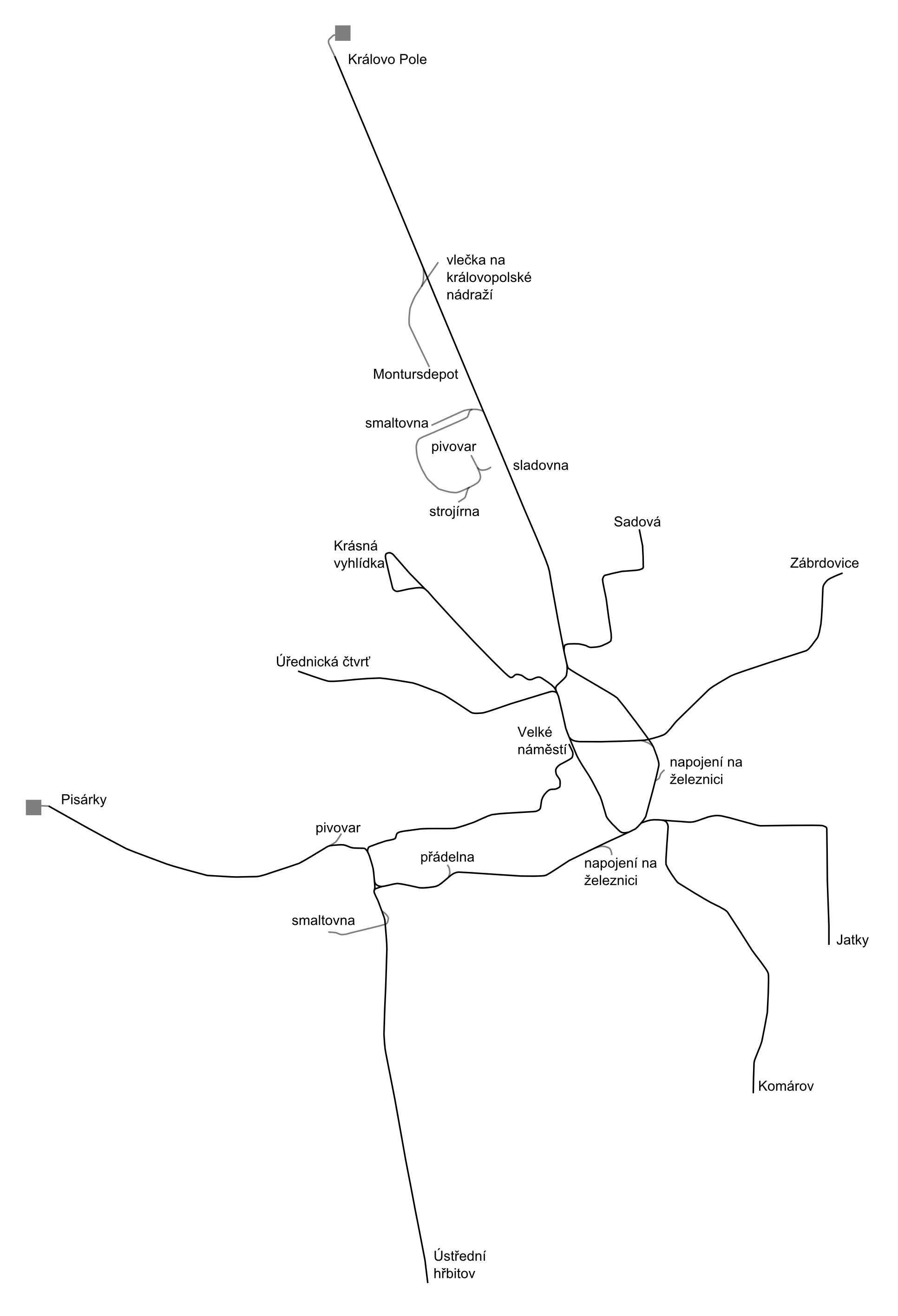 Tram network in Brno (situation in 1906), now Czech Republic